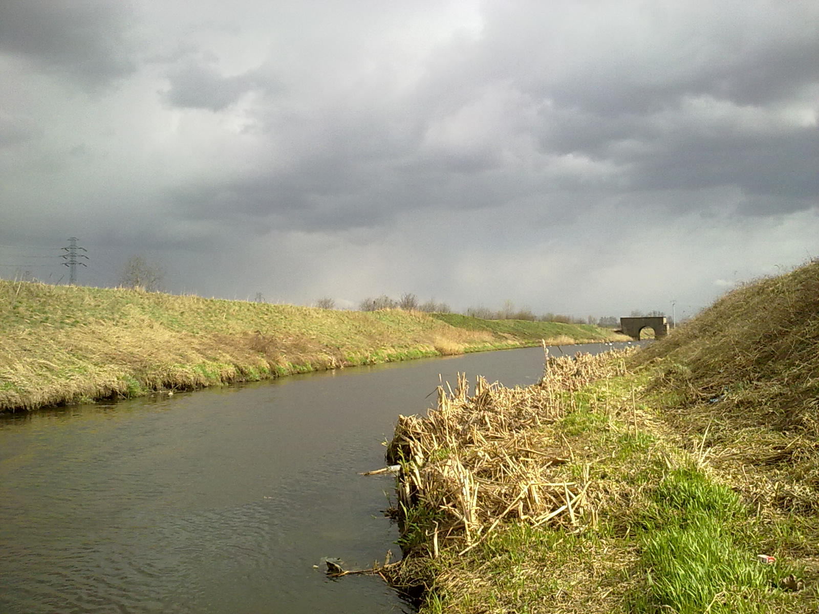 Brynica in Piekary Śląskie